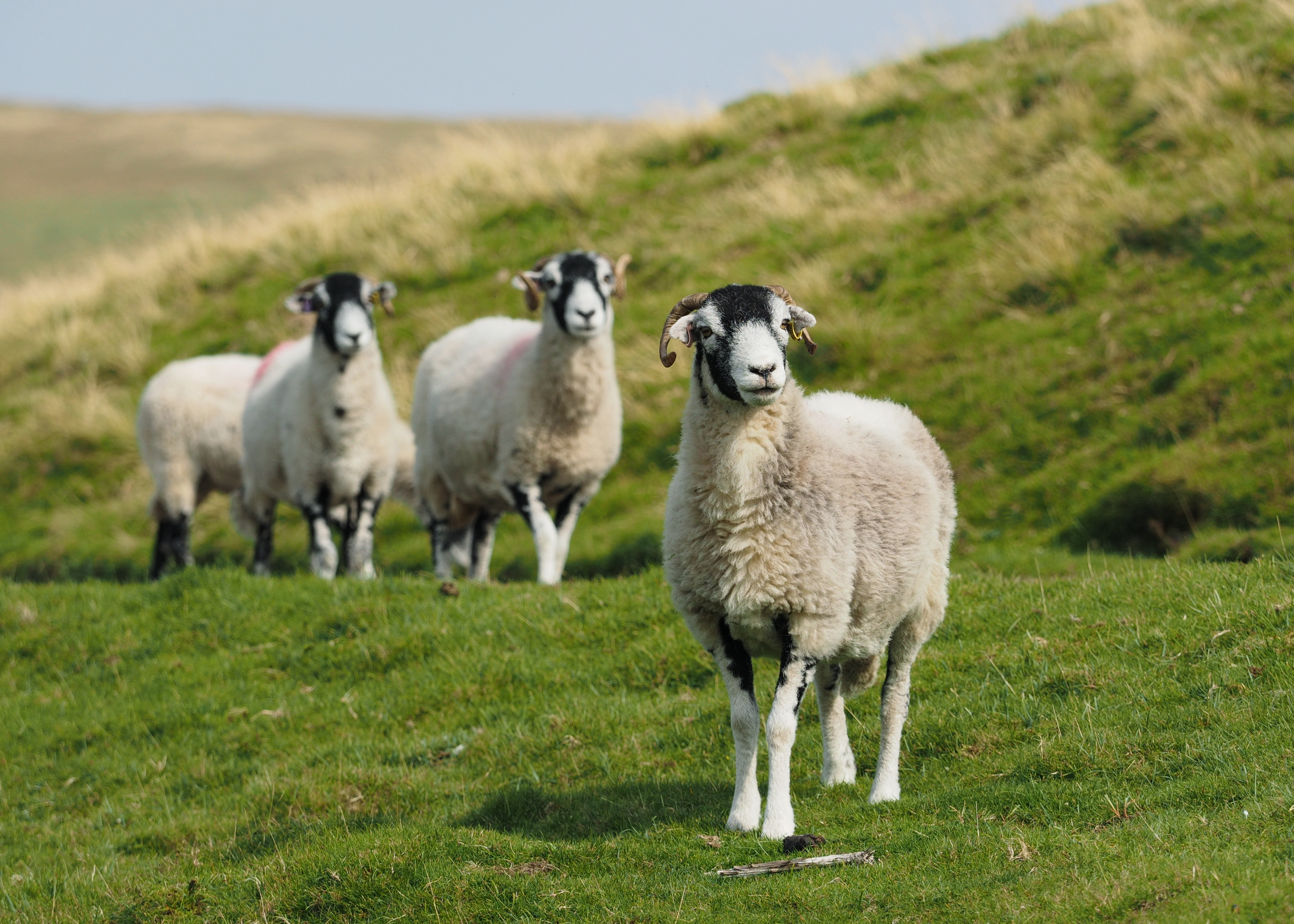 Swaledale Sheep on Oxnop Scar, Swaledale, North Yorkshire, England